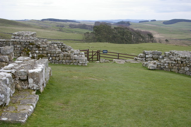 East Gate, Housesteads Roman Fort (Verocovicium) Looking towards Knag Burn. The East Gate would have been the main entrance into the fort.